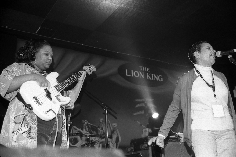 ESG band